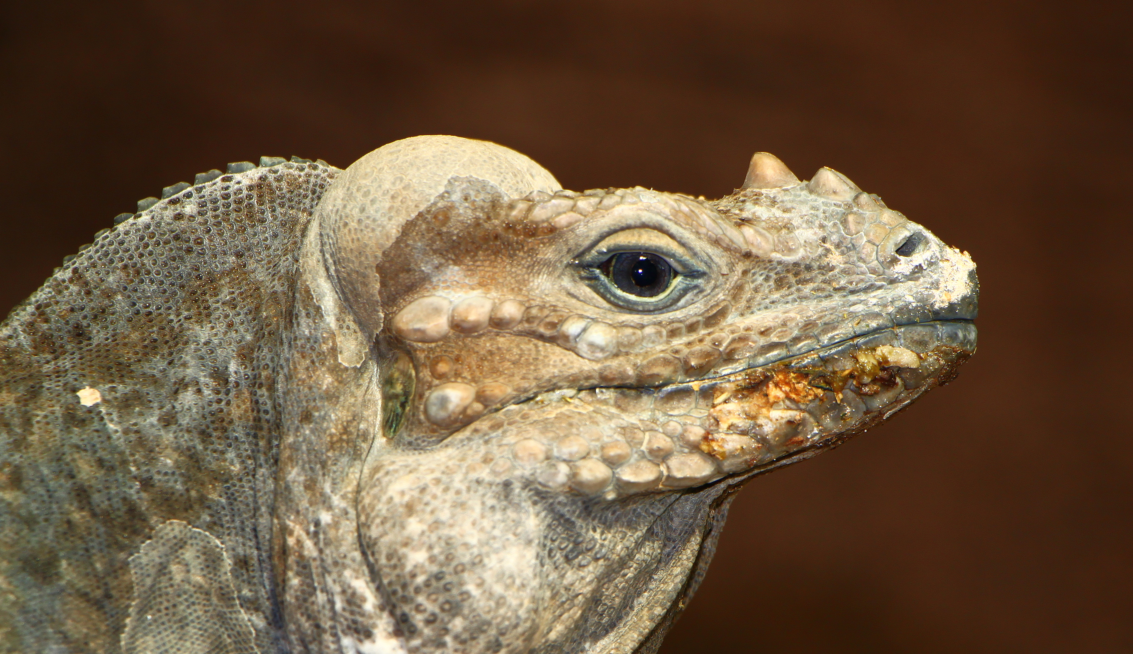 Rhinoceros Iguana; Reptilium Landau, Germany.